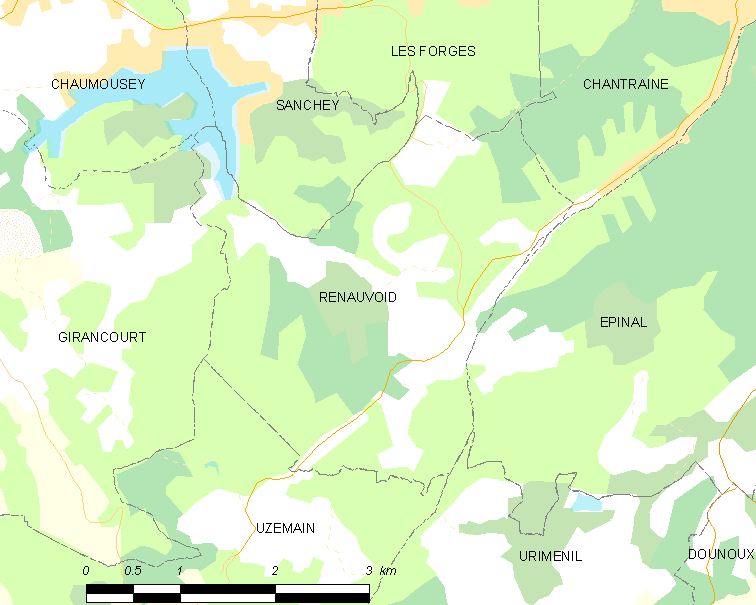 Map of French municipality Renauvoid